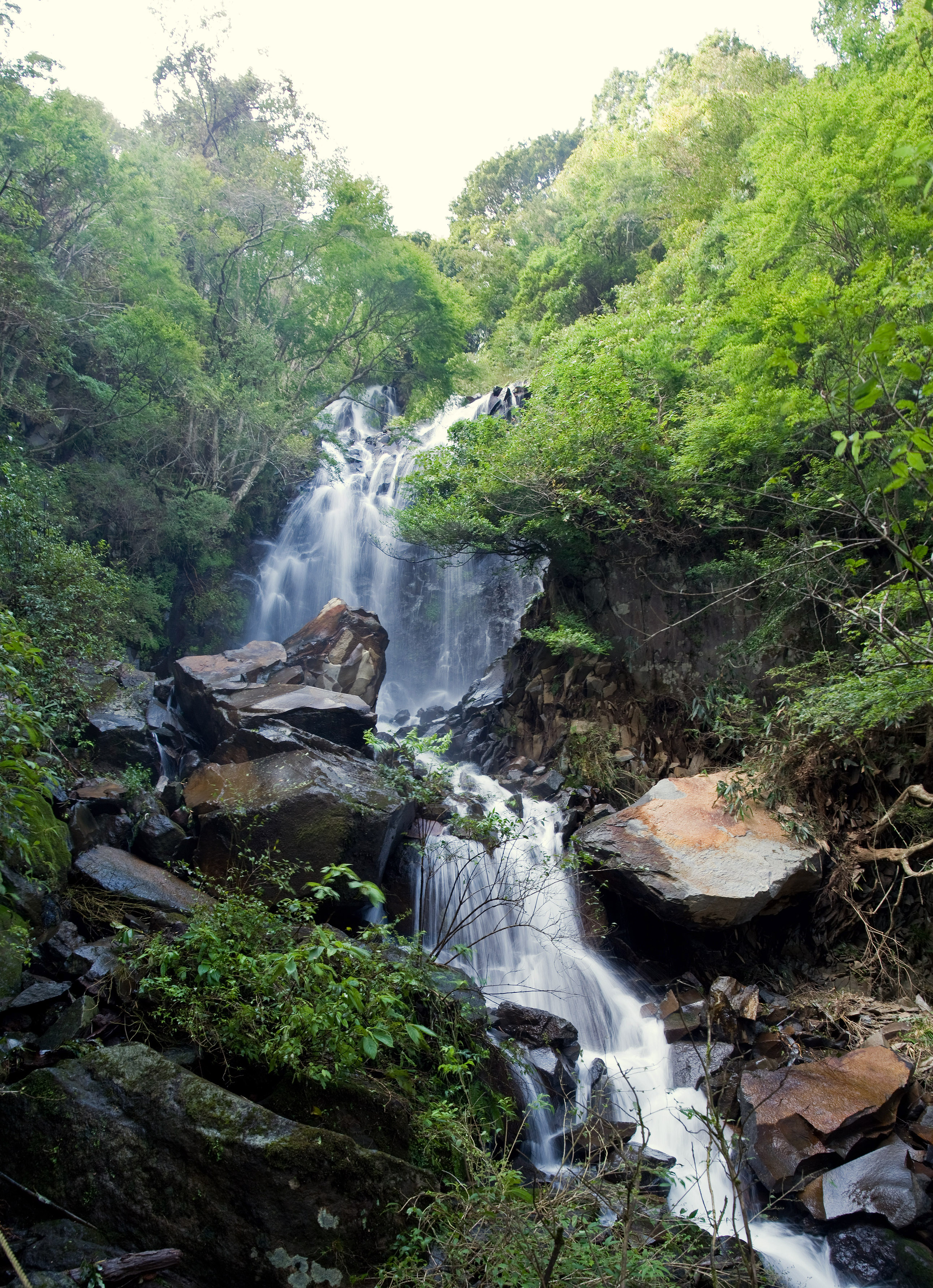 Hiryu Falls in Hakone Town, Kanagawa Pref., Honshu, Japan.